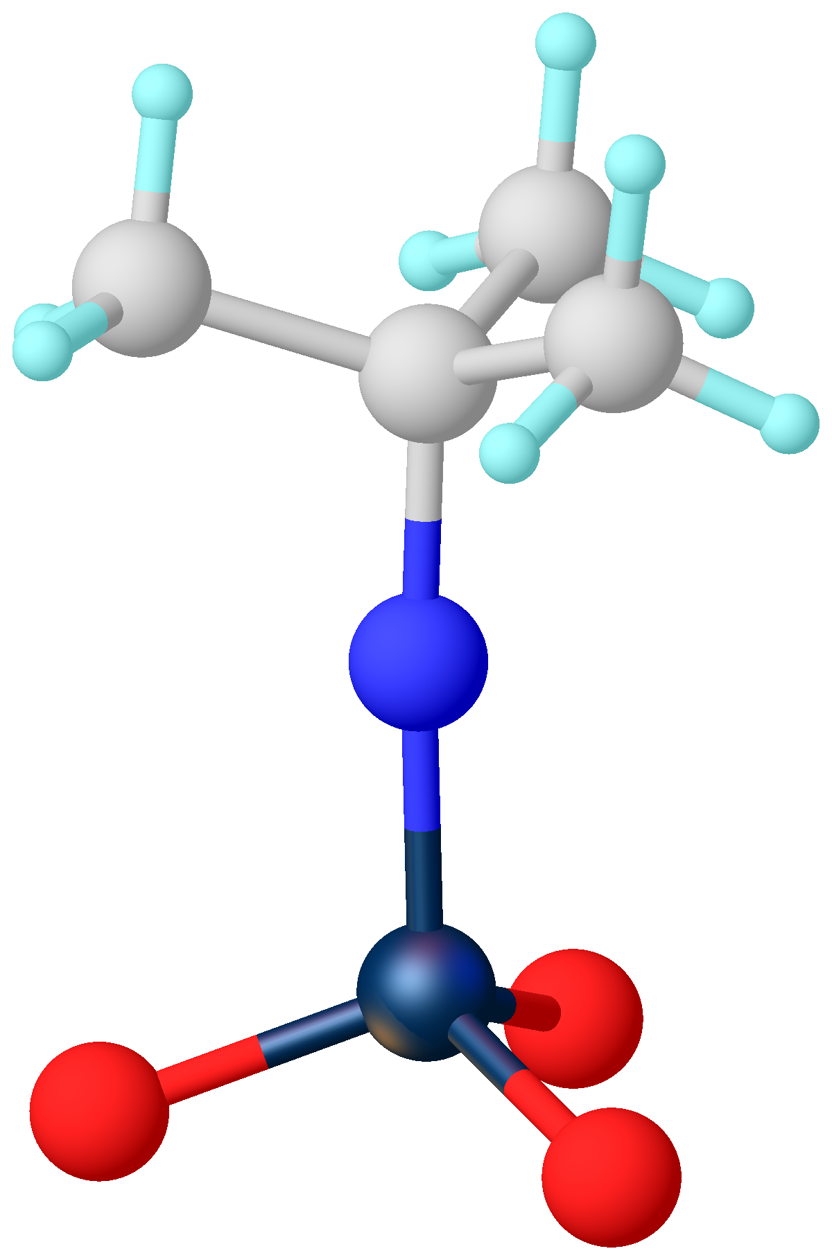 Structure of OsO3(N-t-Bu) from doi 10.1039/dt9900002465